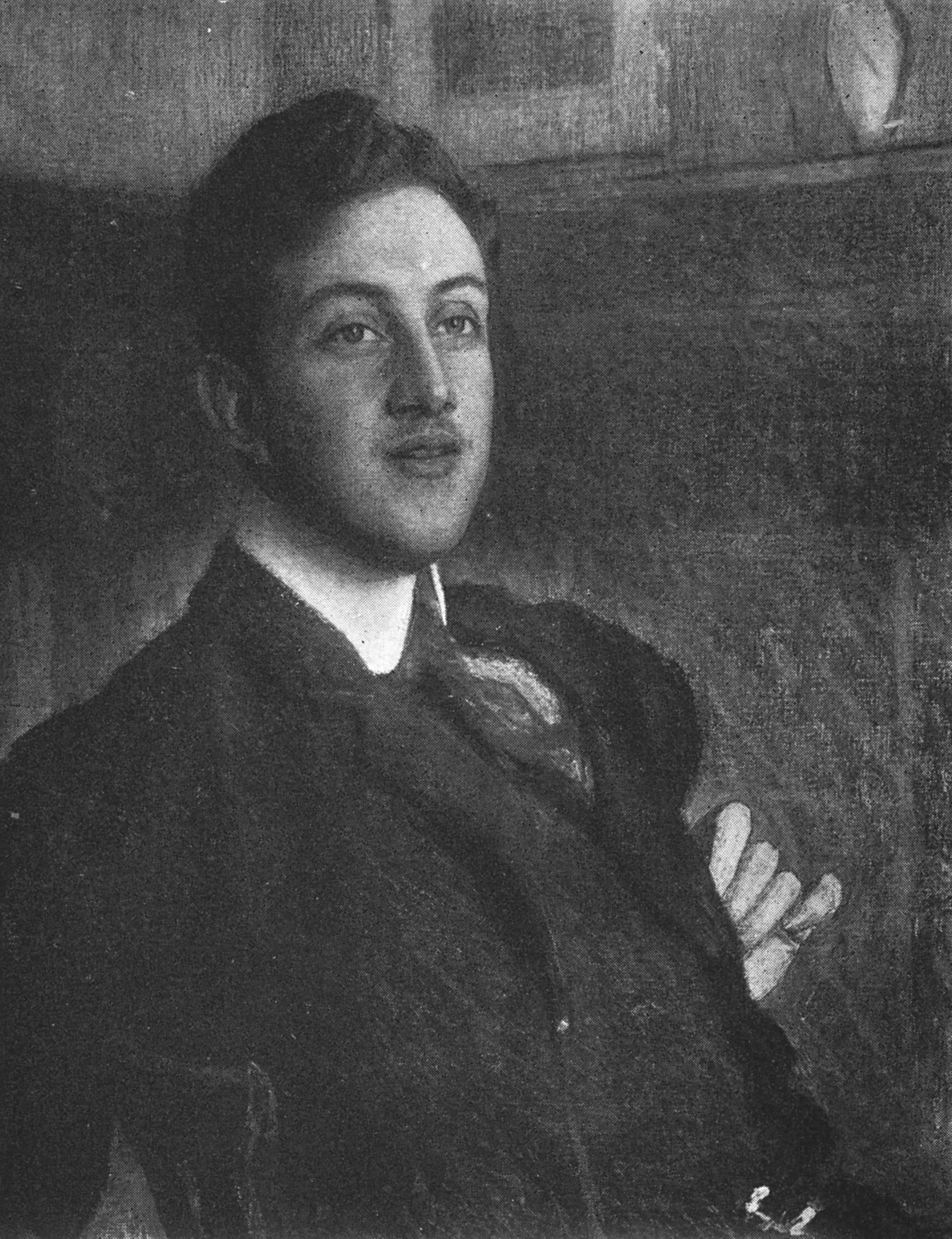 Martin Lamm (1880-1950), Swedish historian of literature.